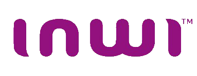 Logo of Inwi